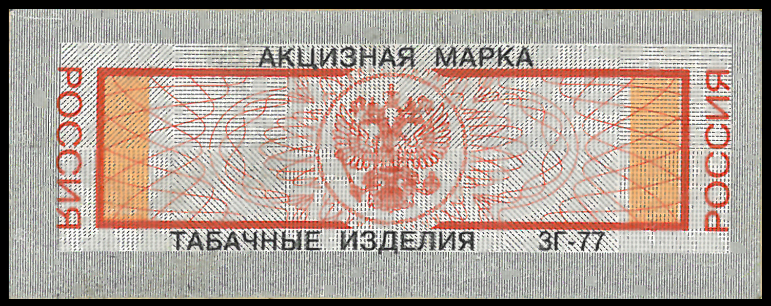 Excise stamp of Russia on tobacco products, 1994